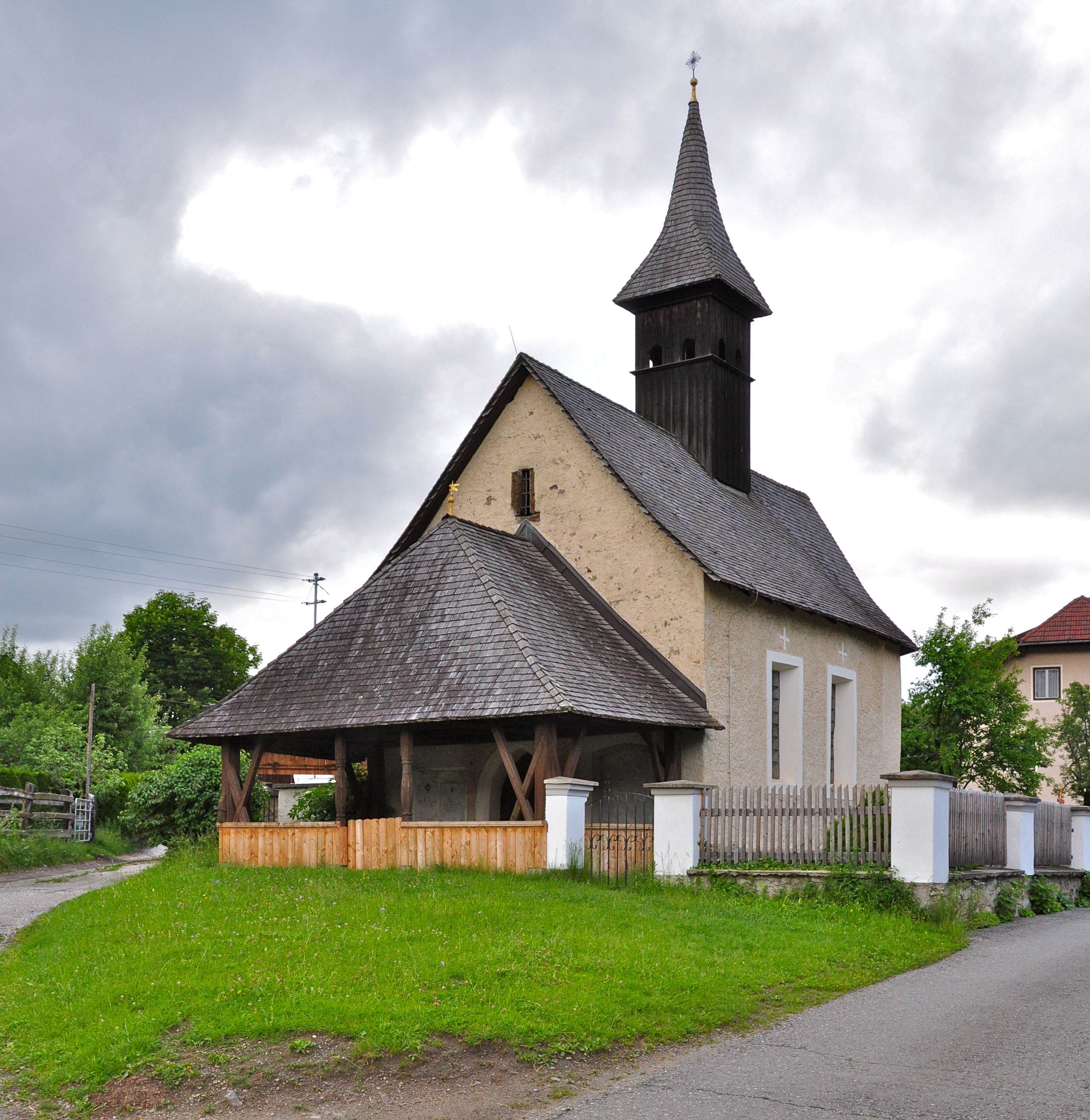 Subsidiary church Saints Philipp and Jakob at Pichlern, municipality Himmelberg, district Feldkirchen, Carinthia / Austria / EU